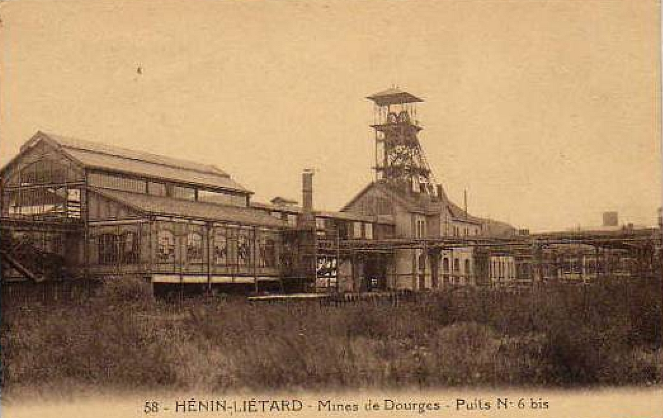 Compagnie des mines de Dourges, Pas-de-Calais, France.